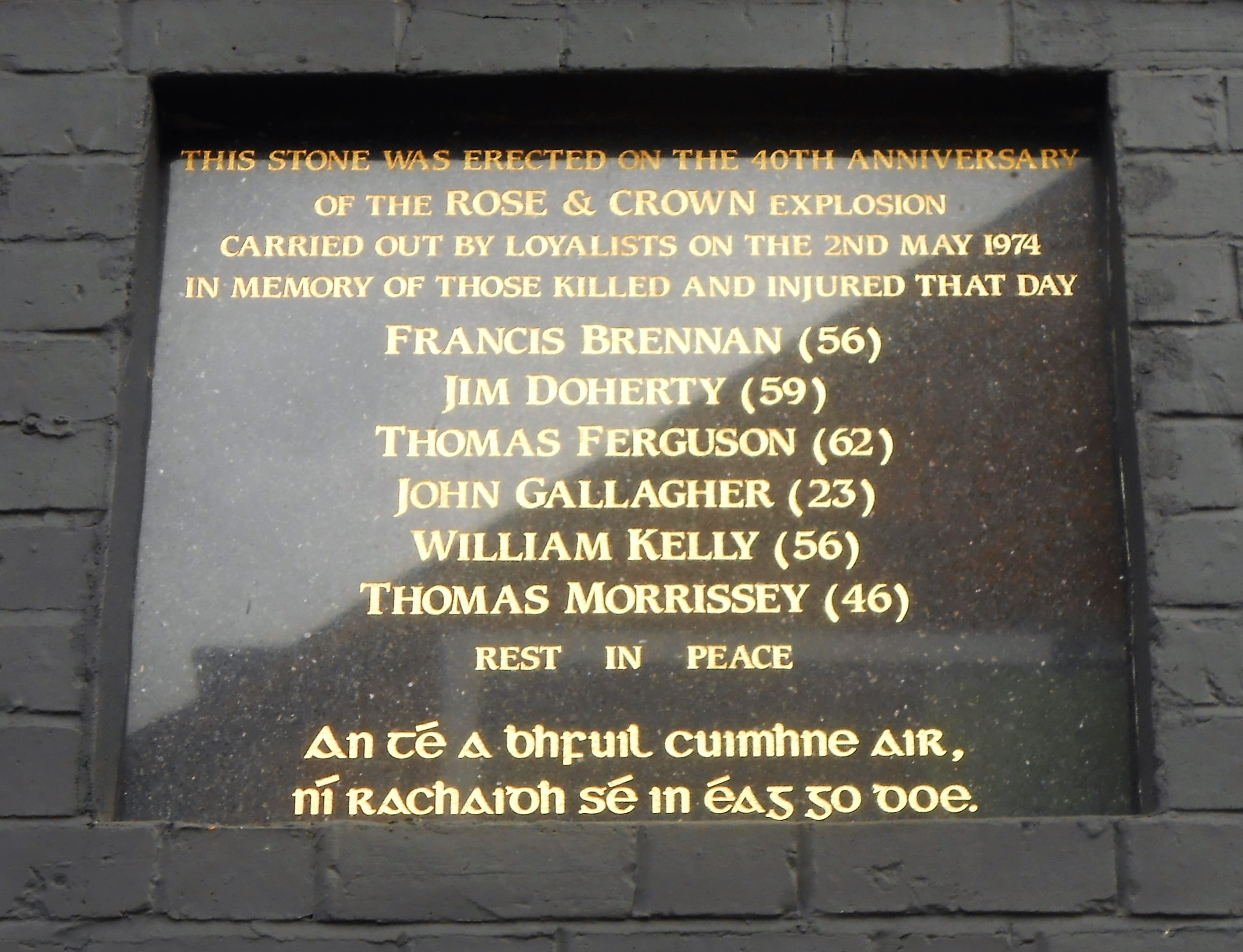 Memorial to the dead in the Rose & Crown bomb, Farnham Street, Belfast